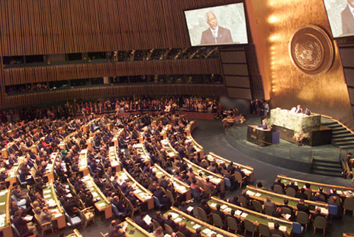 NEW YORK. The UN Millennium Summit.